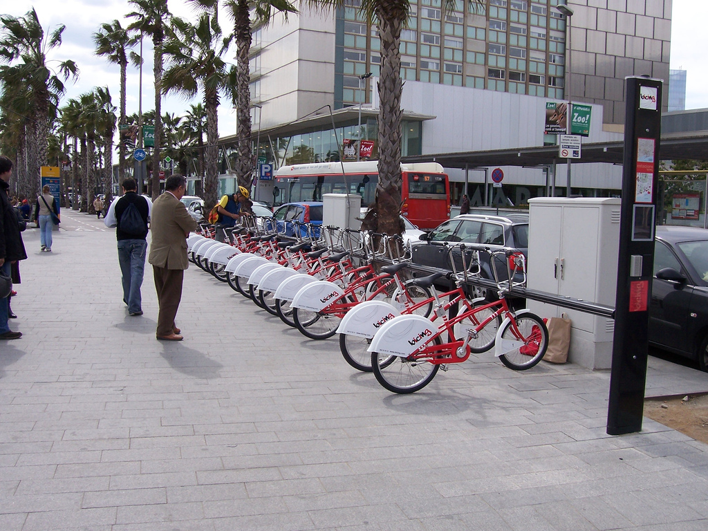 Public bike sharing station (Bicing) in Hospital del Mar, Barceloneta District (Barcelona, Catalonia).